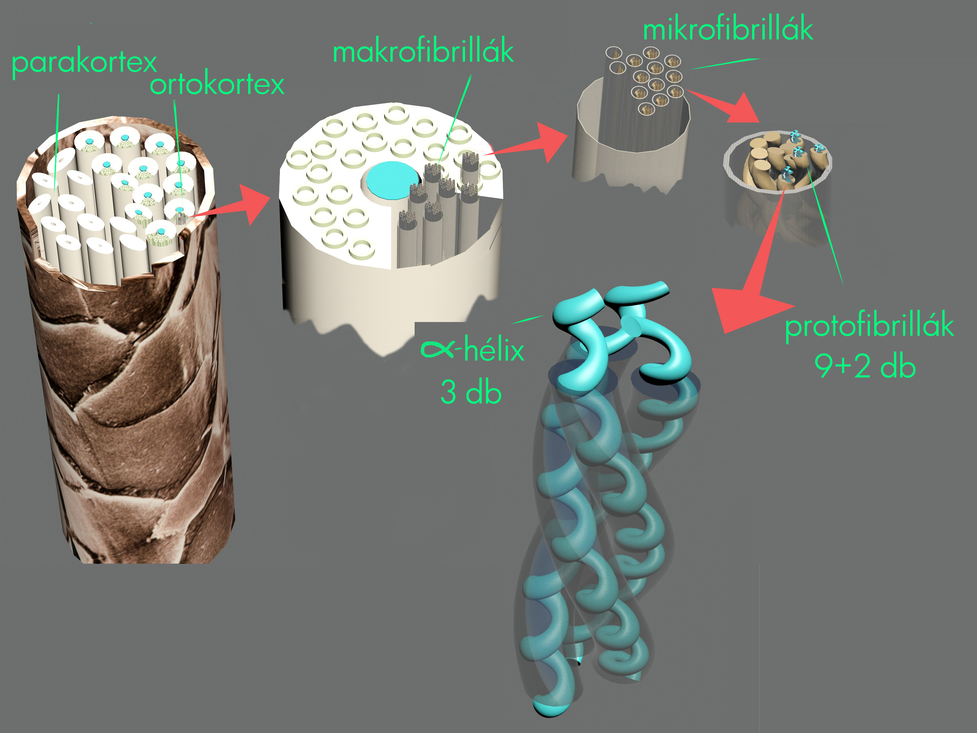 Wool microstructures